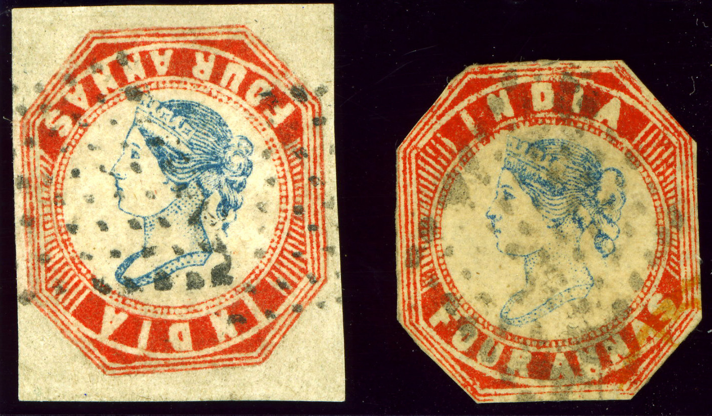 A forgery of the 4 annas inverted head 1854 is shown at the left. A genuine stamp (cut to shape), although not an inverted head, is shown at the right for comparison. Four different dies were used to print the four annas stamps.